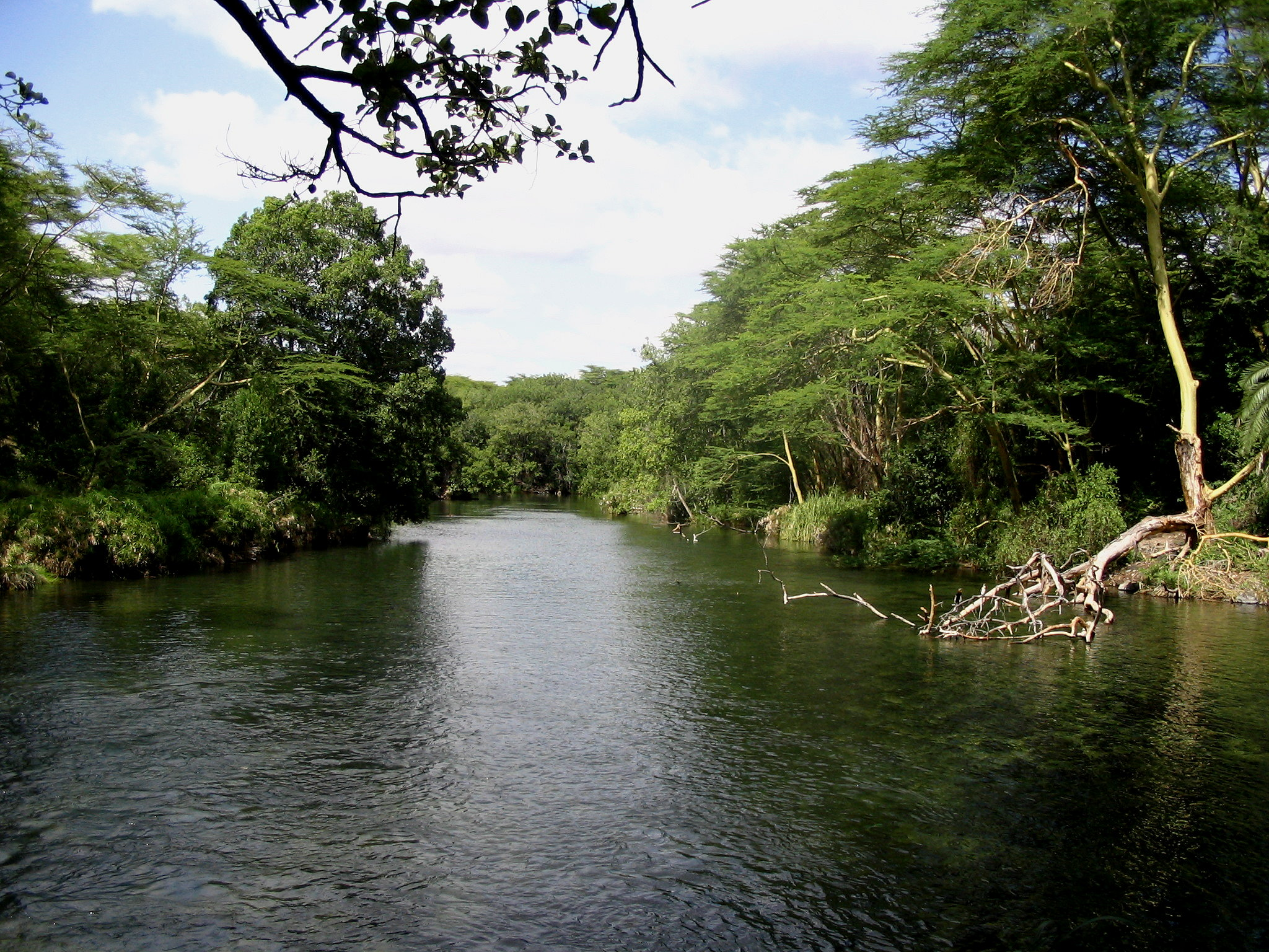 The Tsavo River running through the Tsavo West National Park, Kenya. Large trees are present on both banks of the river.